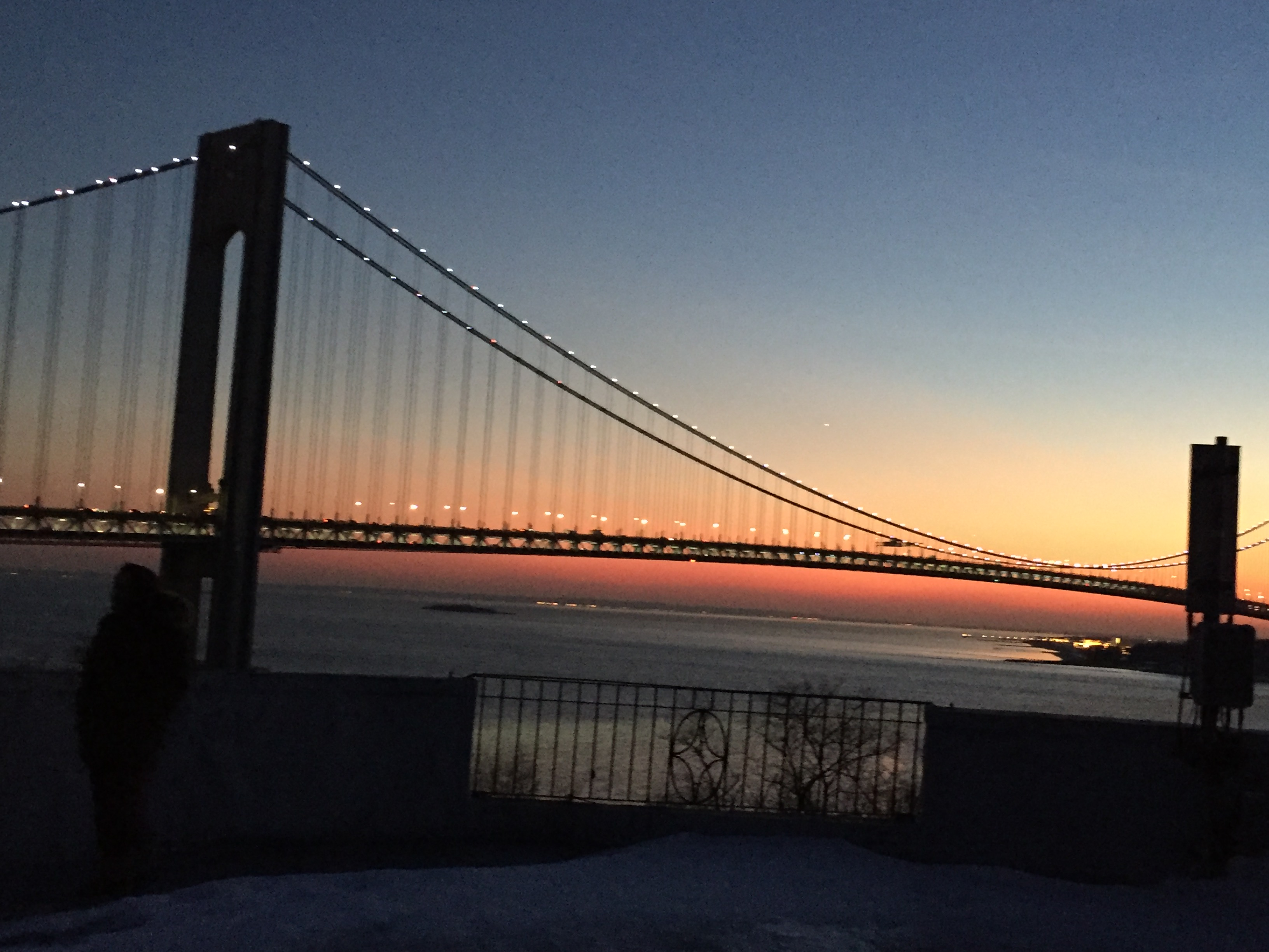 Verrazano-Bridge from Shore Road